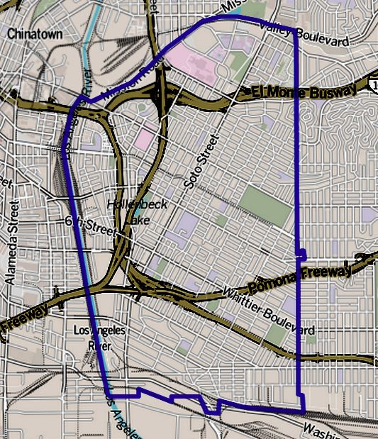 Map of Boyle Heights, California, as delineated by the Los Angeles Times Other information Boundary map as drawn by the Los Angeles Times on a CC-by-SA background. Note at bottom right of map on the L.A. Times website noted above says "CC-by-SA" (which gives permission to use the map). There is a link there to which explains the meaning thereof. The base map is credited to The Times spells all this out at